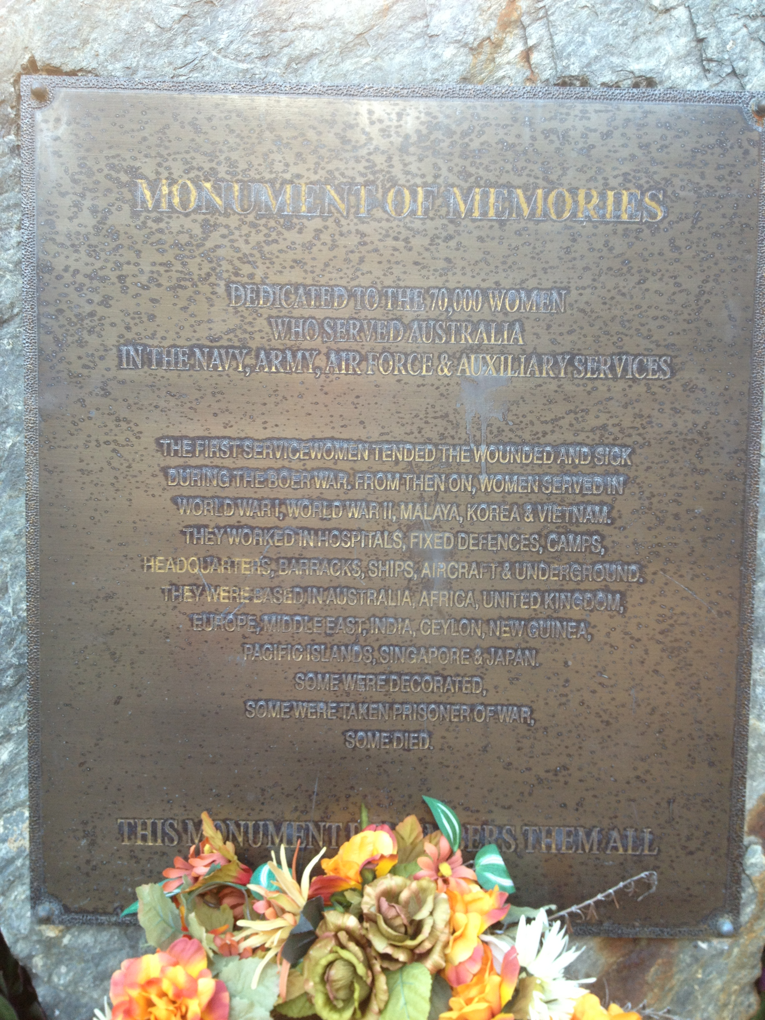 Monument of Memories, Brisbane, 07.2013